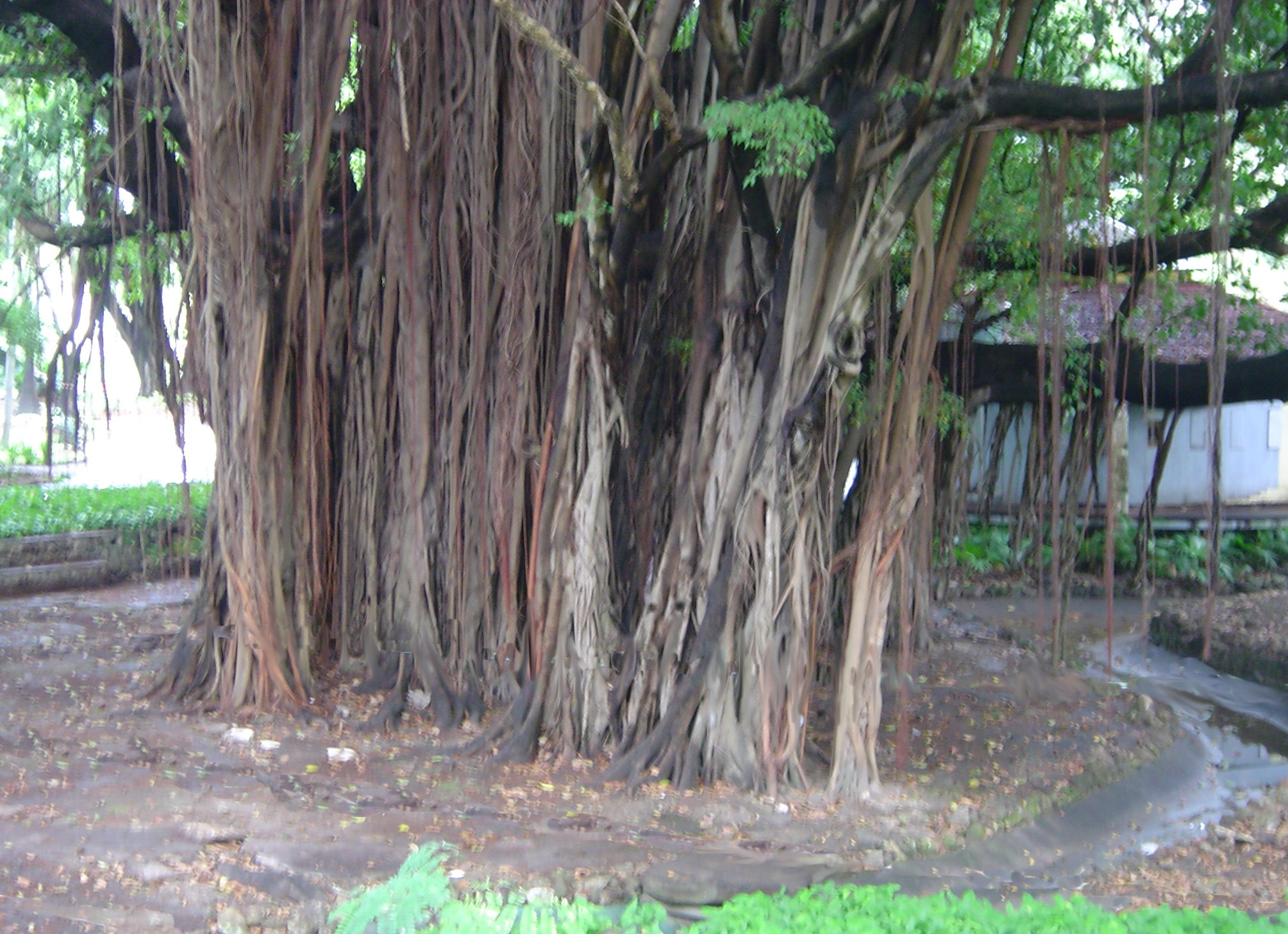 500 year old tree in Havana Forrest